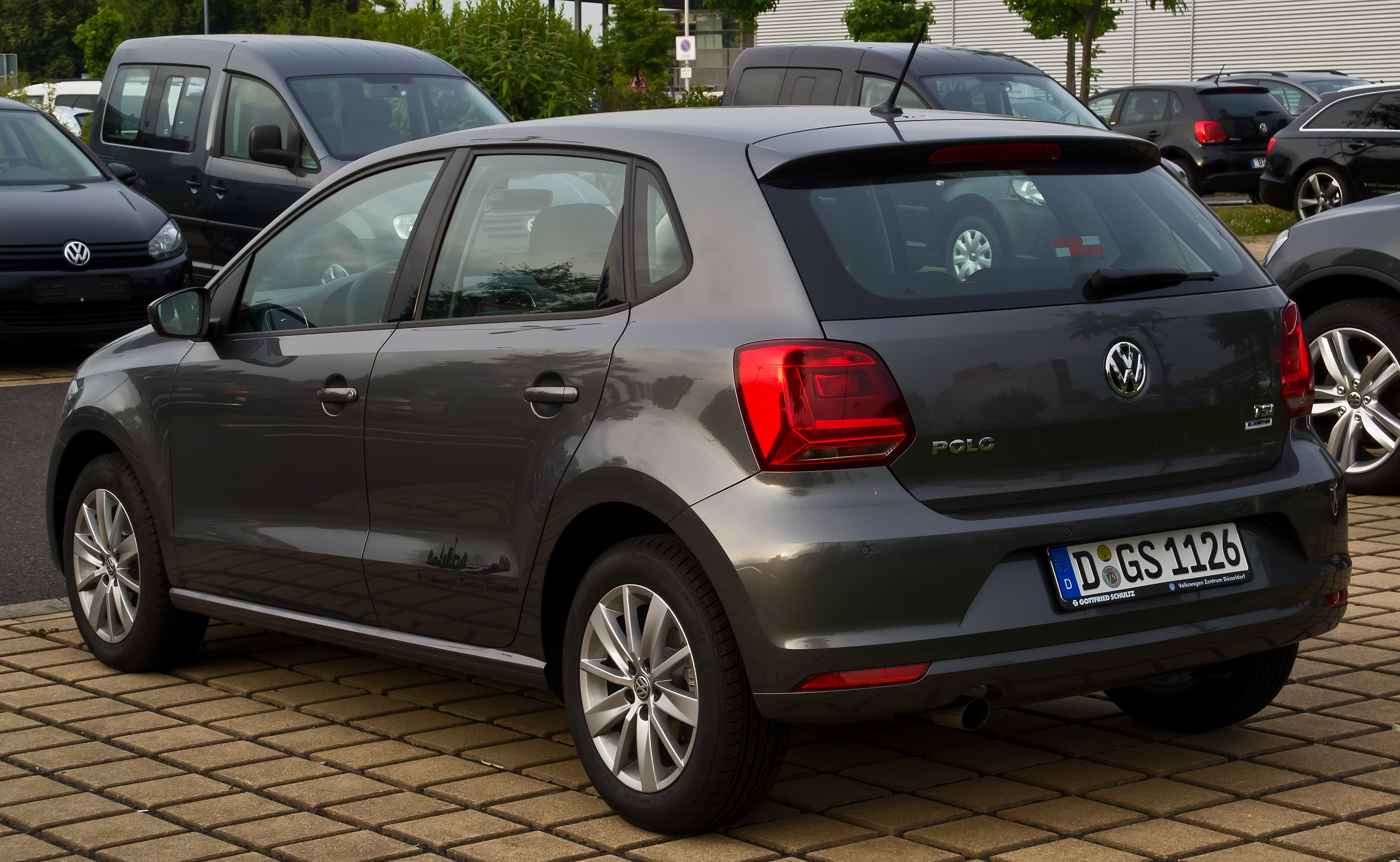 VW Polo 1.2 TSI BlueMotion Technology Comfortline (V, Facelift)